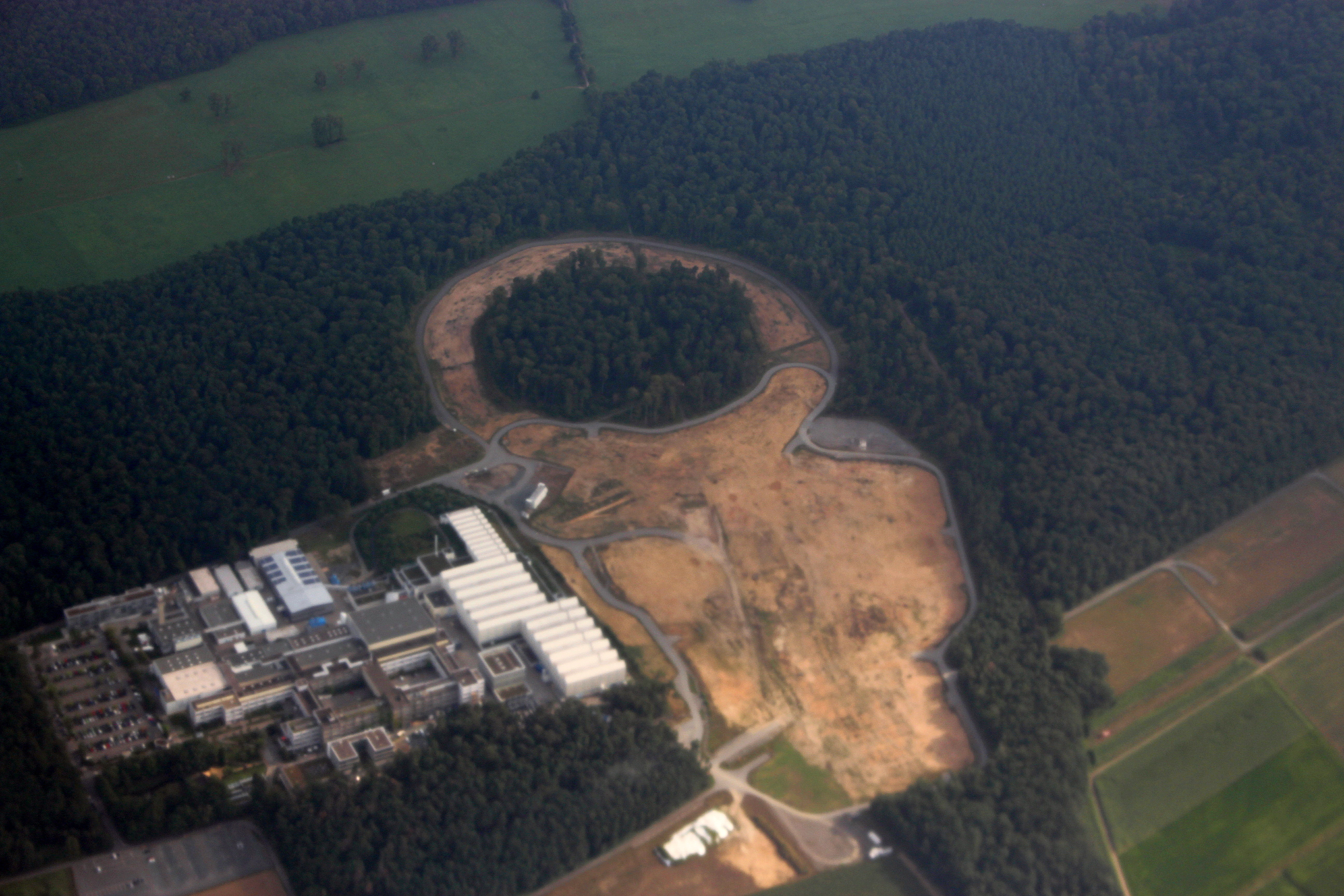 Aerial view on the constructions of FAIR, the Facility for Antiproton and Ion Research.